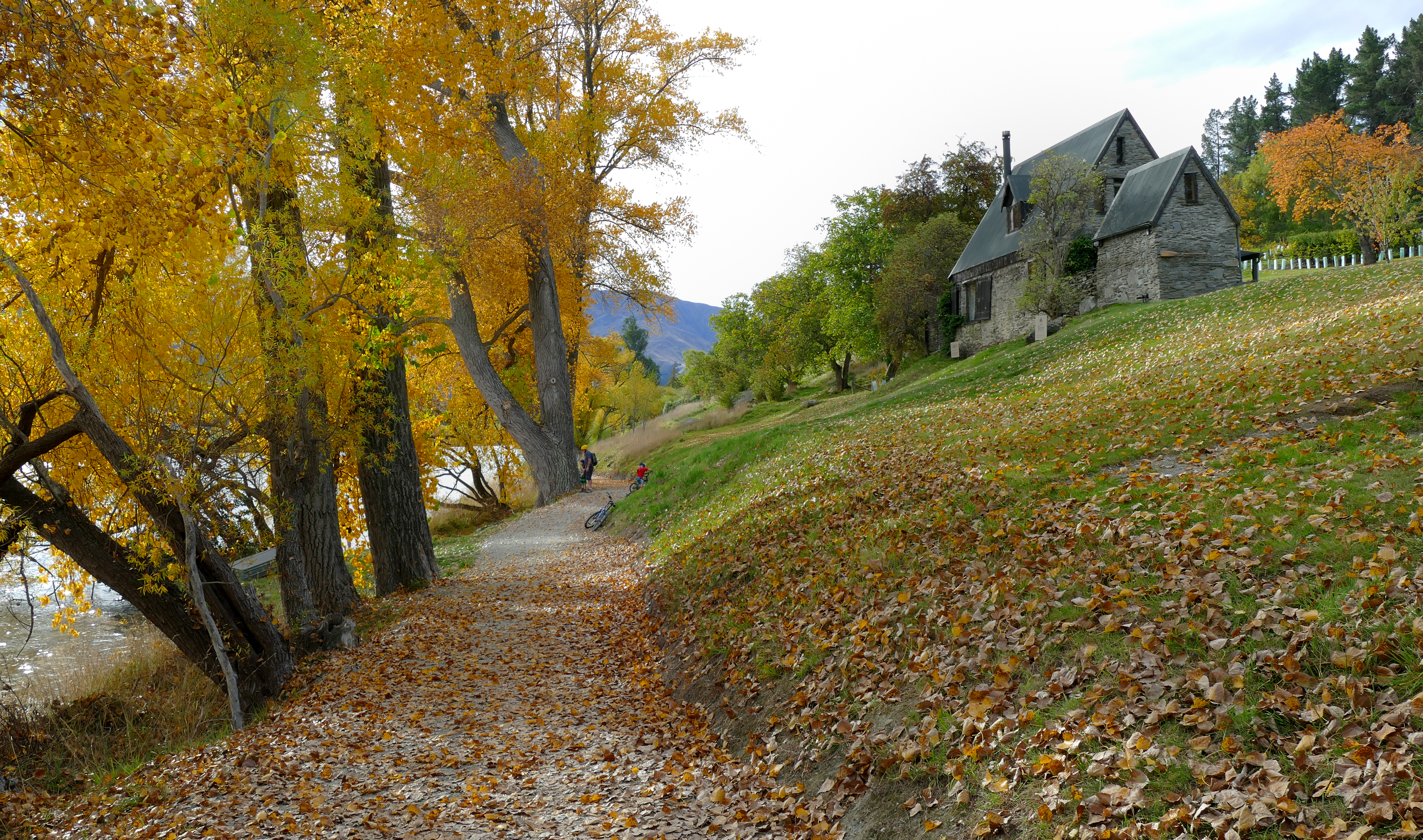 A local favourite! Easy grade walk on a well formed track providing outstanding views of the lake and surrounding area. Please keep dogs on a leash around the wetlands area - its one of the few sites you can observe the Australasian Crested Grebe.